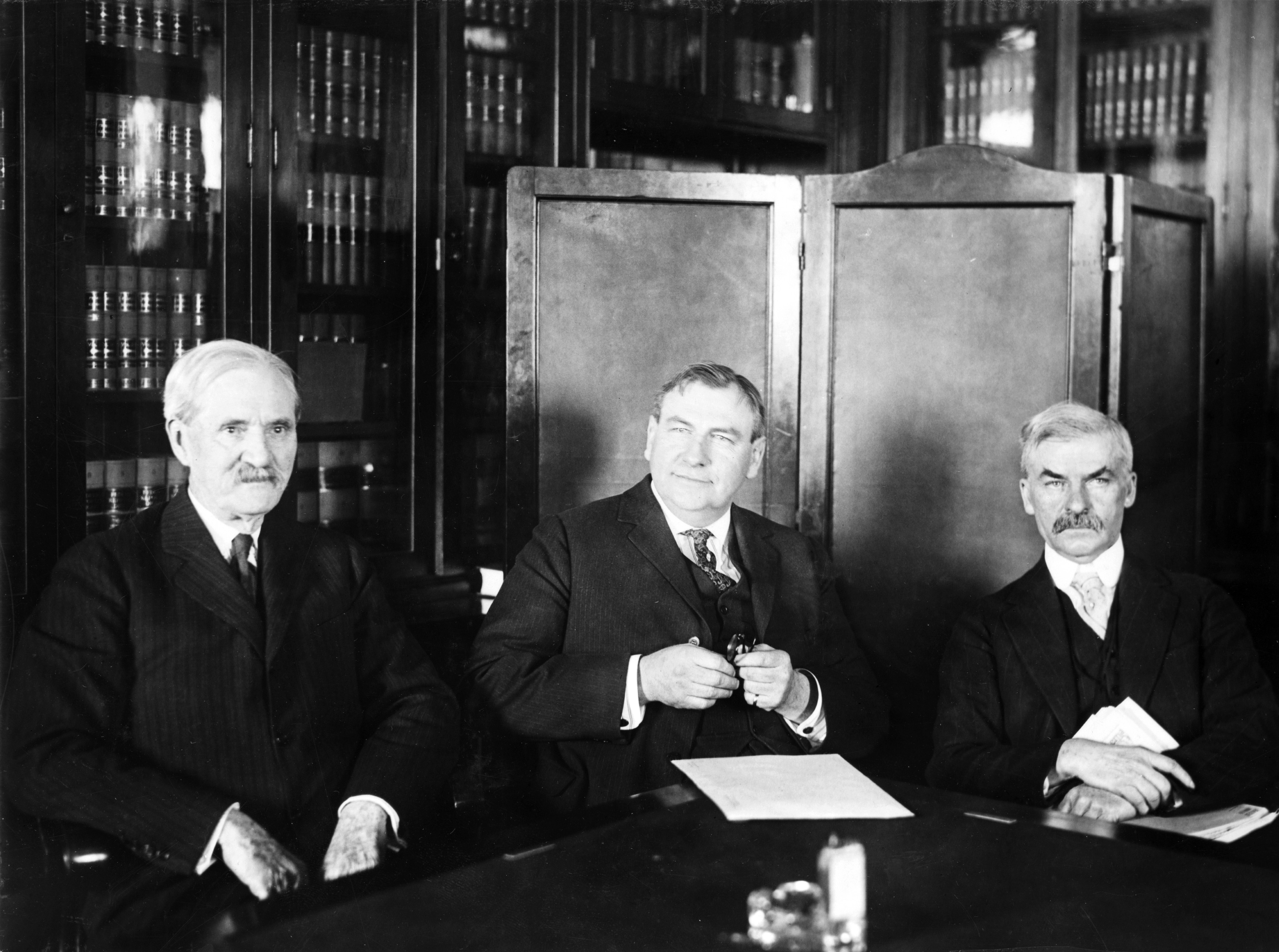 L-to-R: Senator Albert B. Cummins of Iowa, U.S. Attorney General Harlan F. Stone, Senator Thomas J. Walsh of Montana. Caption: "Stone tells Senate Judiciary Committee about Wheeler case."